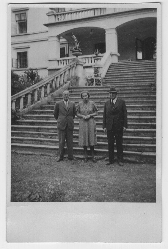 Prof. MUDr. Vratislav Jonáš with his wife MUDr. Marie Wichterle and her father Lambert Wichterle at the castle in Slavičín